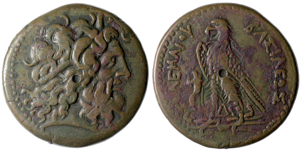 Example of a large Ptolemaic Bronze from the reign of Ptolemy V.